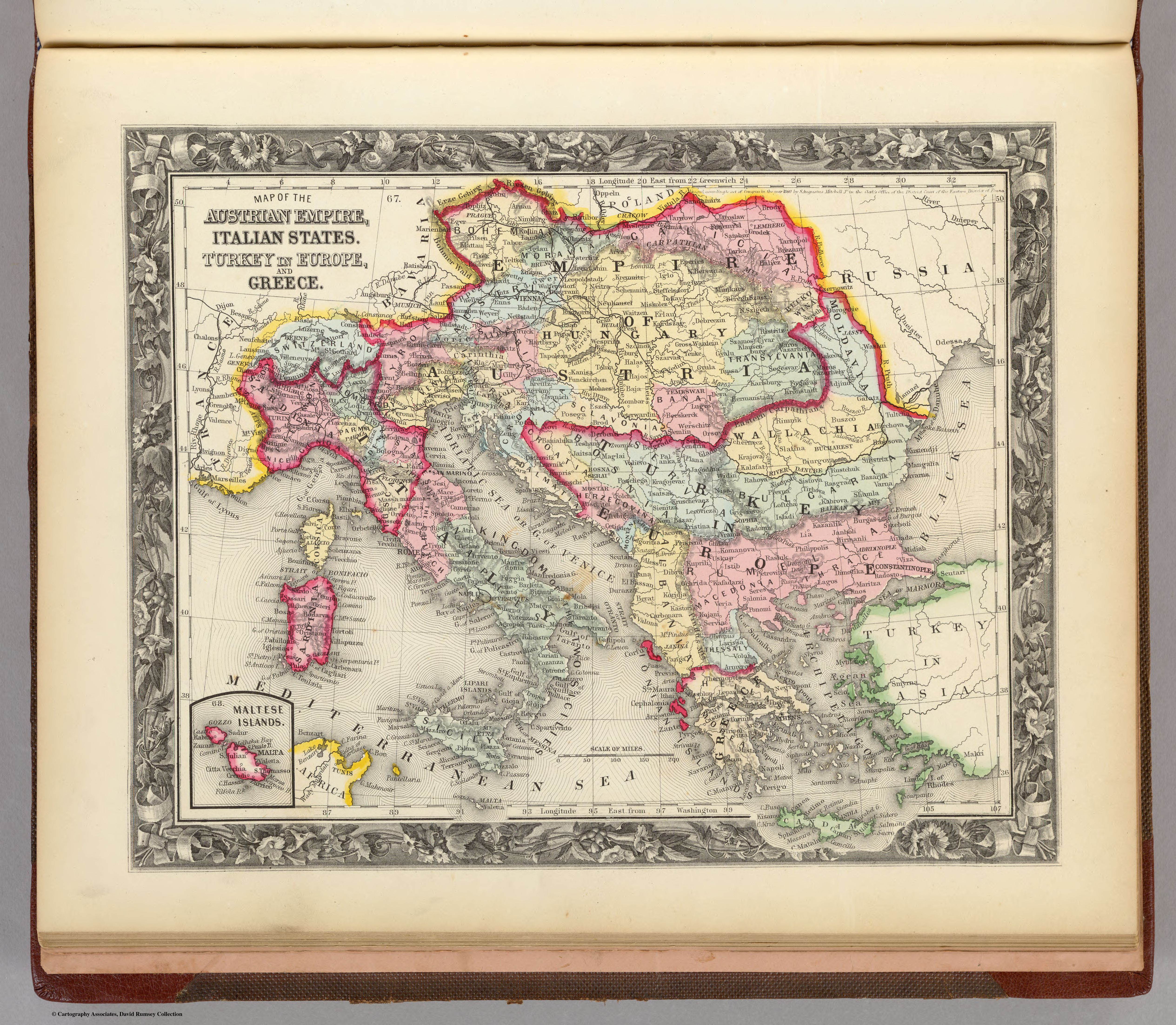 1860 Map Of The Austrian Empire, Italian States, Turkey In Europe and Greece